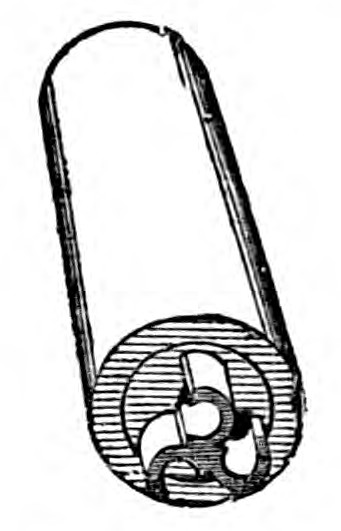 Base of the Hale rocket